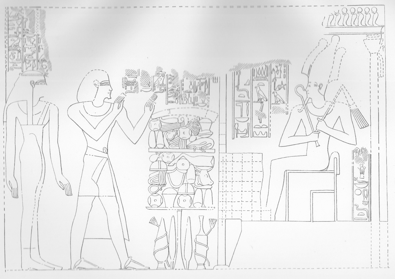 Scene from the tomb of the "High Priest of Amun" Menkheperreseneb at Thebes Theban Tomb 86 (TT86) 18th dynasty, time of Thutmose III The owner and his mother Ta-iunet are here seen on the left adoring a figure of Osiris Khentamentet enthroned on a high dais set under a simple baldachin.